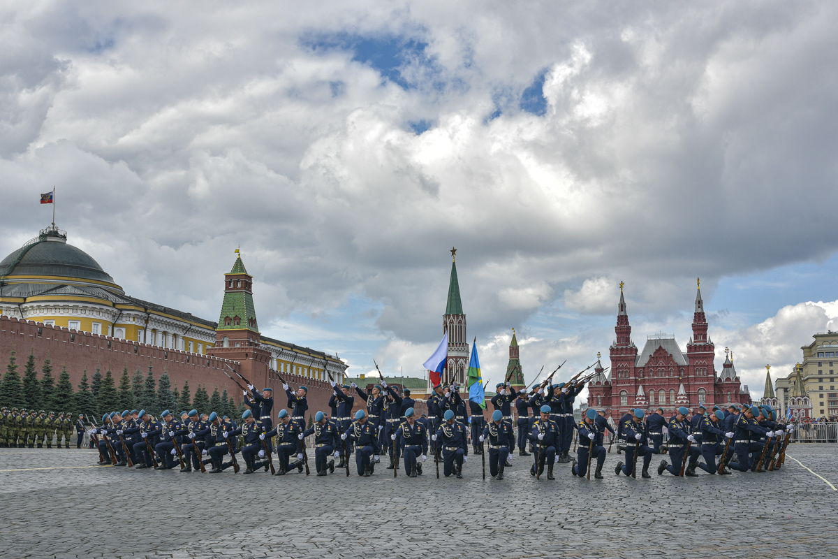 Торжественные мероприятия, посвященные Дню Воздушно-десантных войск